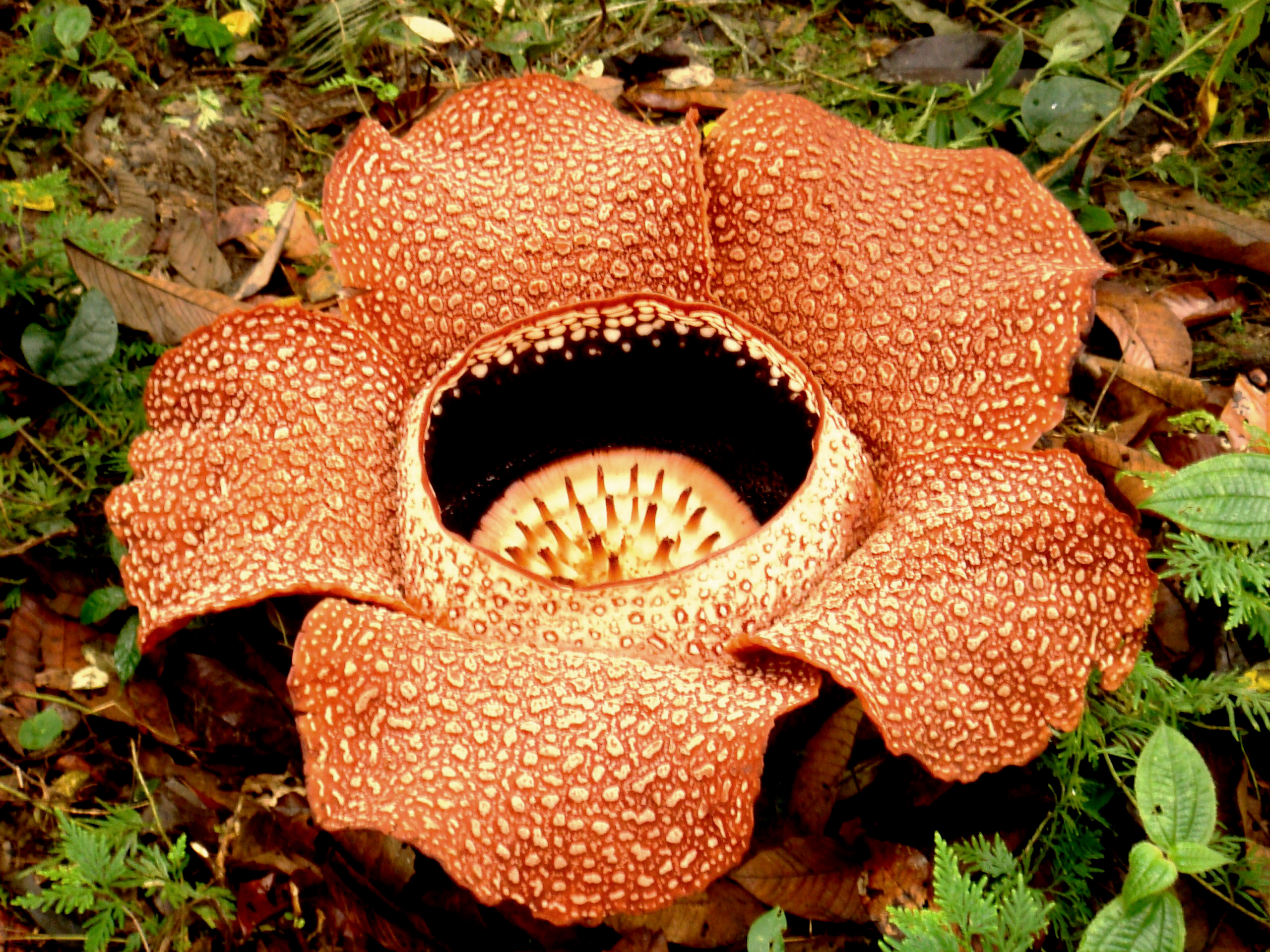 Rafflesia arnoldii - Growing in the jungle from a host vine. 1m wide.